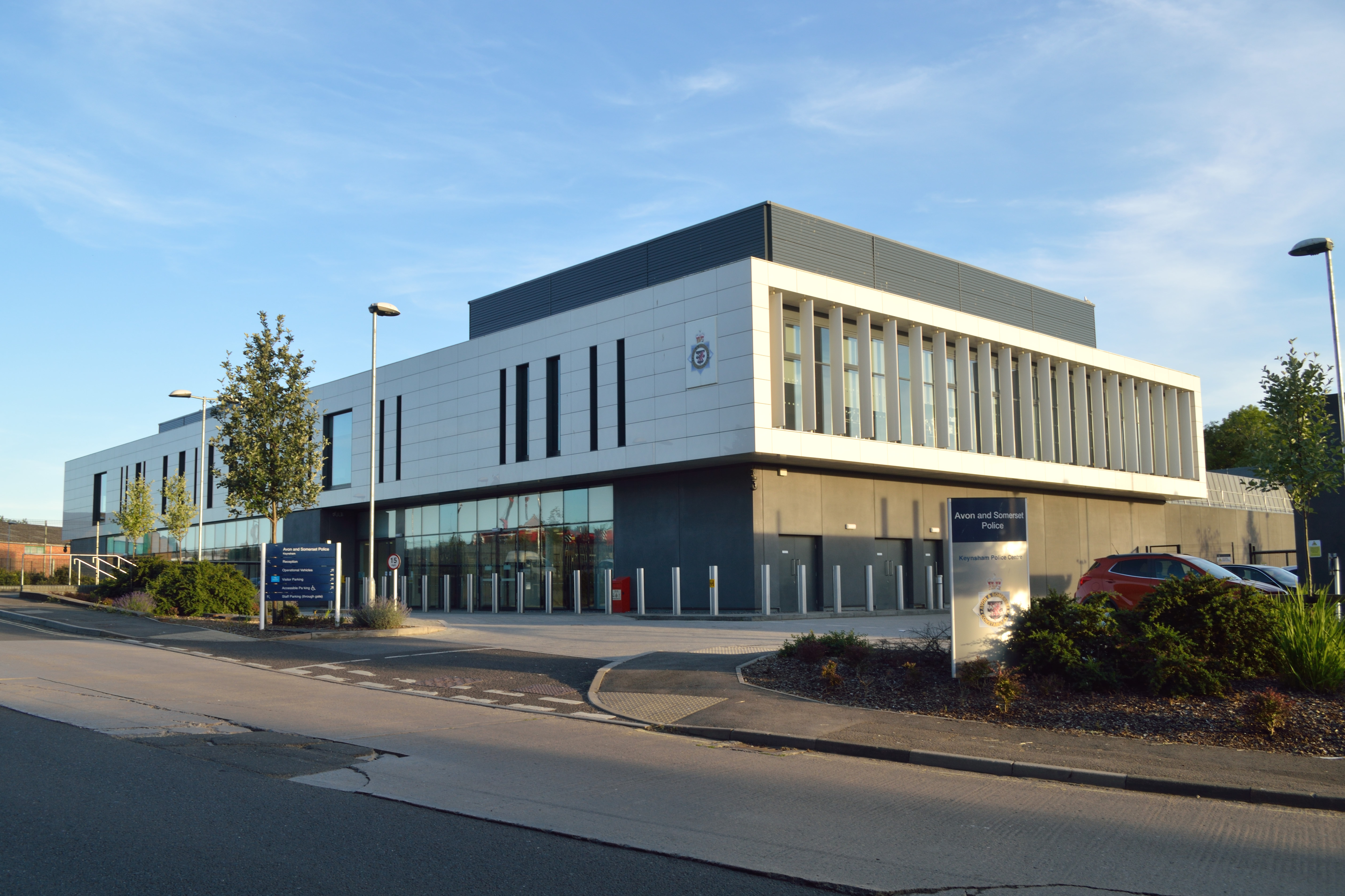 Keynsham Police Centre, on the Ashmead industrial estate. Opened in 2014.